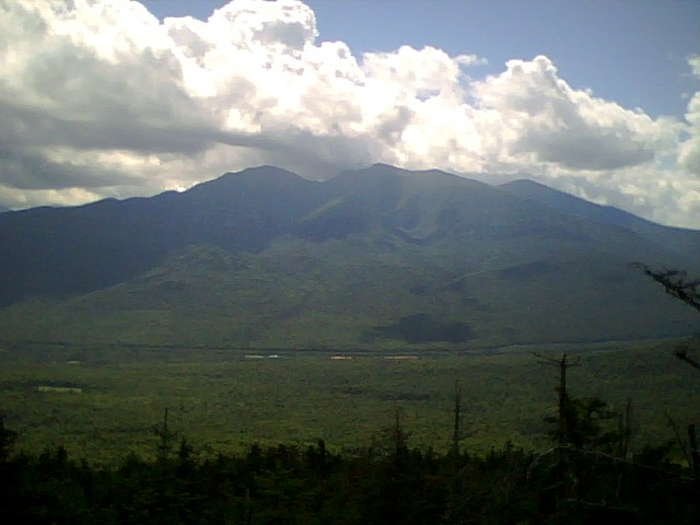 Anne Barschall took this picture in August of 2007